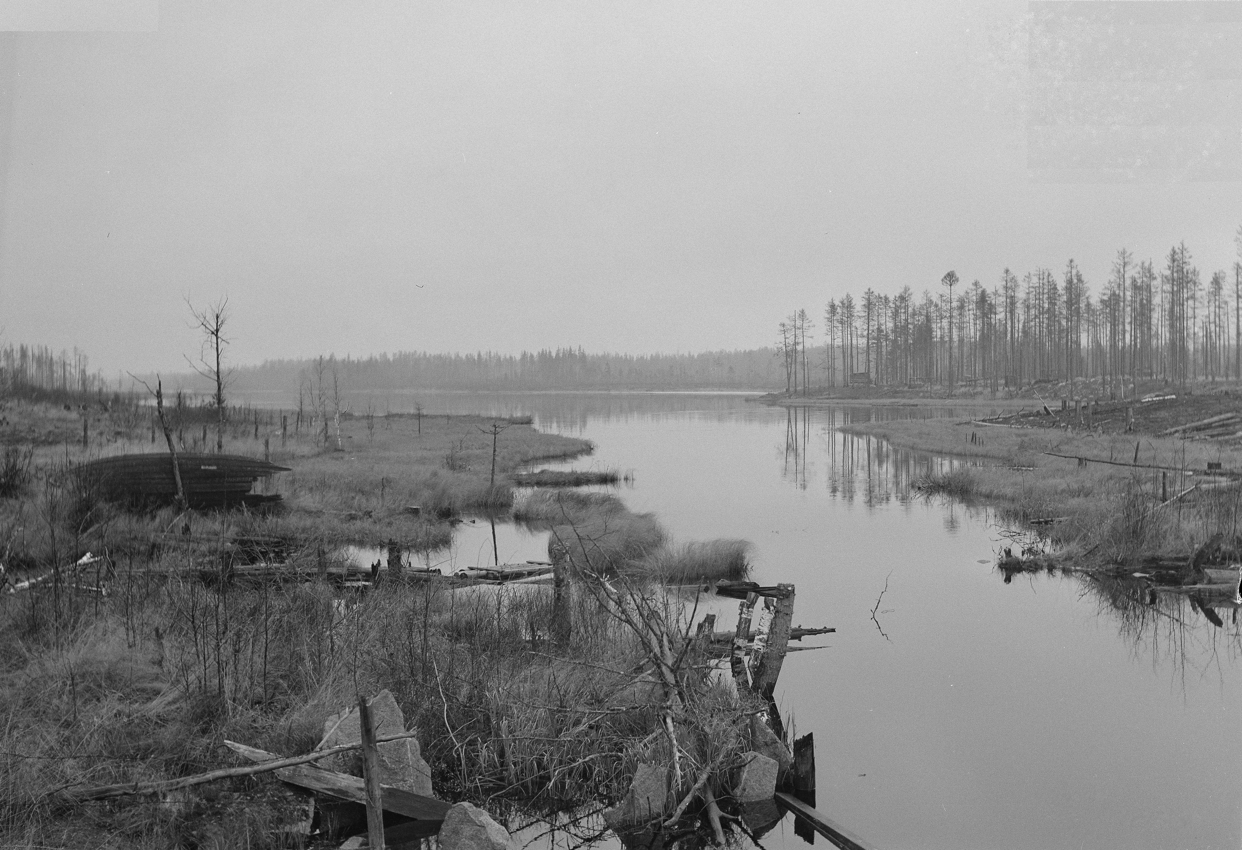 Yksittäis panoraamakuvia Kollaan taistelumaastosta.